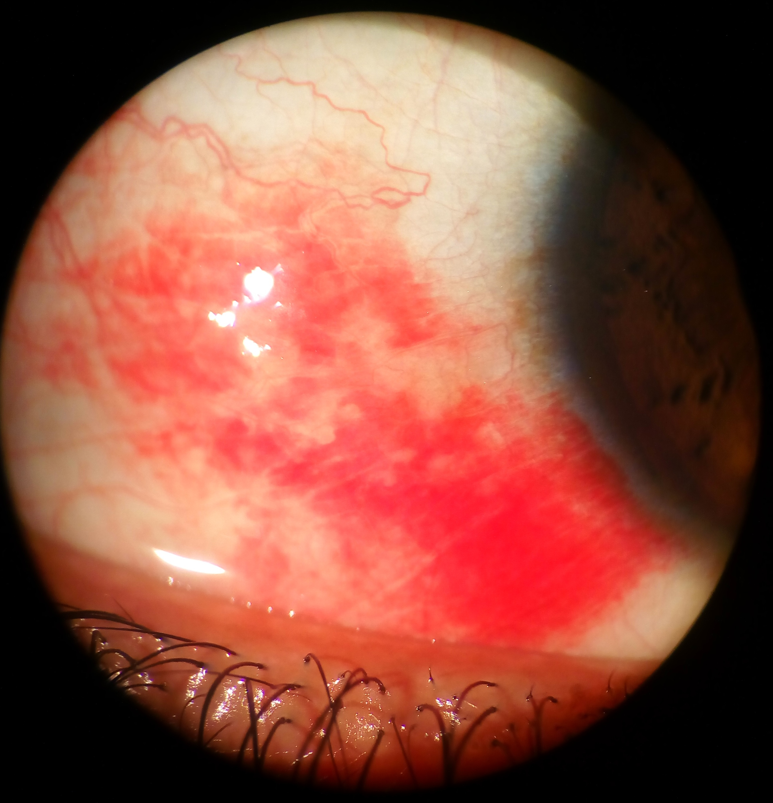 Subconjunctival hemorrhage viewed through slit lamp biomicroscope